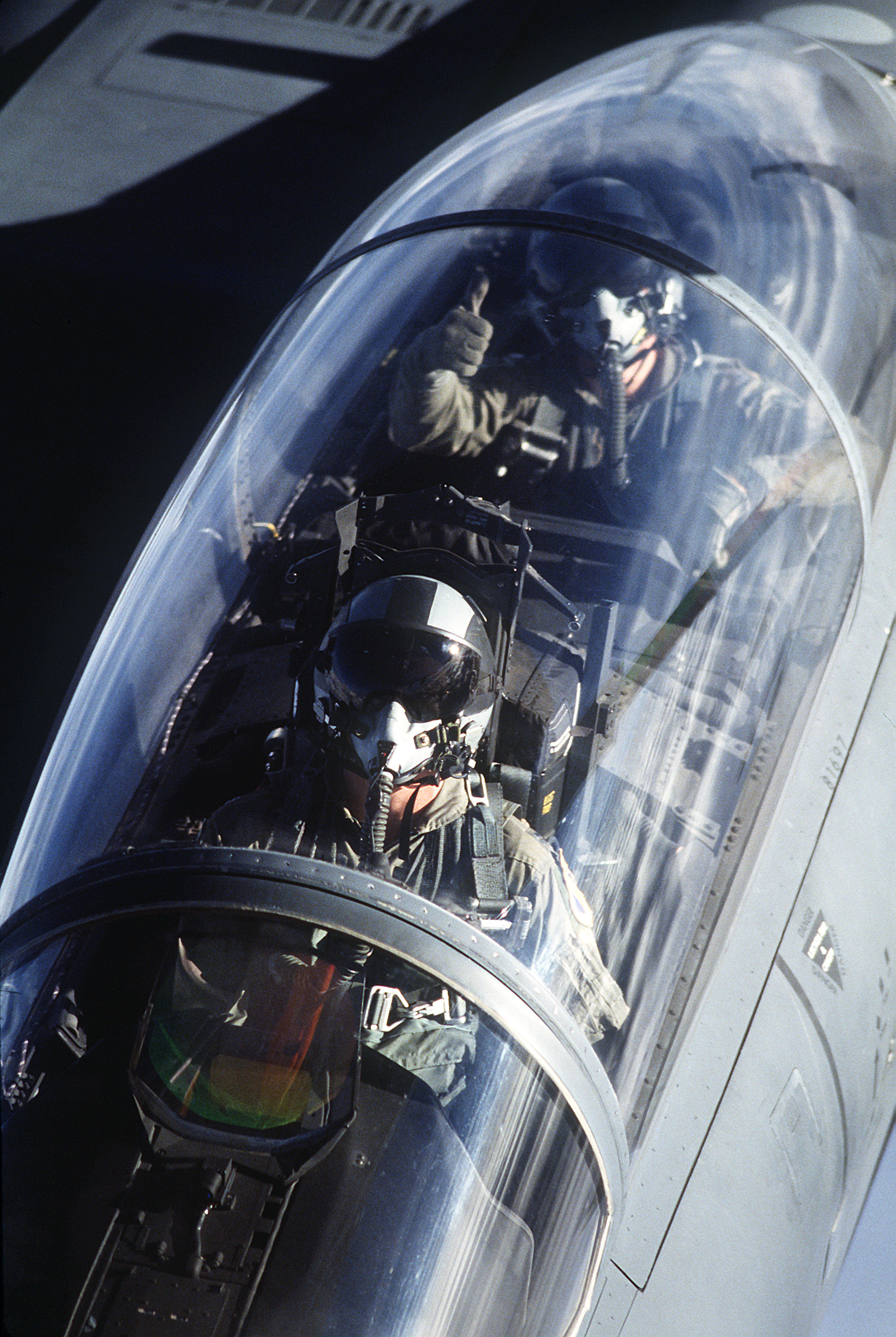 A view of the pilot and co-pilot in the cockpit of a 4th Tactical Fighter Wing F-15E Eagle aircraft as the plane refuels over Saudi Arabia during Operation Desert Shield.